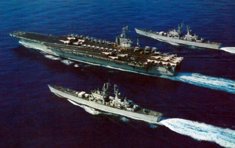 The U.S. Navy guided missile cruisers USS California (CGN-36), foreground, and USS South Carolina (CGN-37), escorting the aircraft carrier USS Nimitz (CVN-68). The Nimitz was deployed with Carrier Air Wing 8 (CVW-8) to the Mediterranean Sea from 7 July 1976 to 7 February 1977.